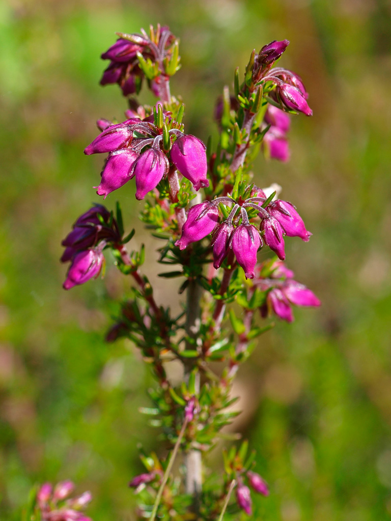 Gillies Hill, Cambusbarron, Scotland